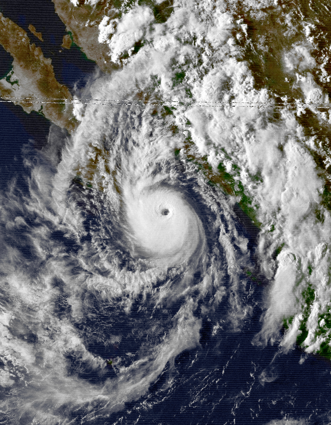 The VISSR instrument onboard the NOAA GOES-7 satellite captured this visible image of Hurricane Kiko on August 27, 1989, at 00:00 UTC. At the time this image was captured, Ismael was a Category 3 hurricane with maximum sustained wind speeds of 120 mph (195 km/h), and its minimum central pressure was 955 mb.